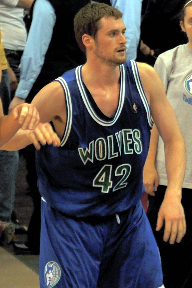 This file has been extracted from another file: Jordan Farmar shooting vs Minnesota Timberwolves.jpg